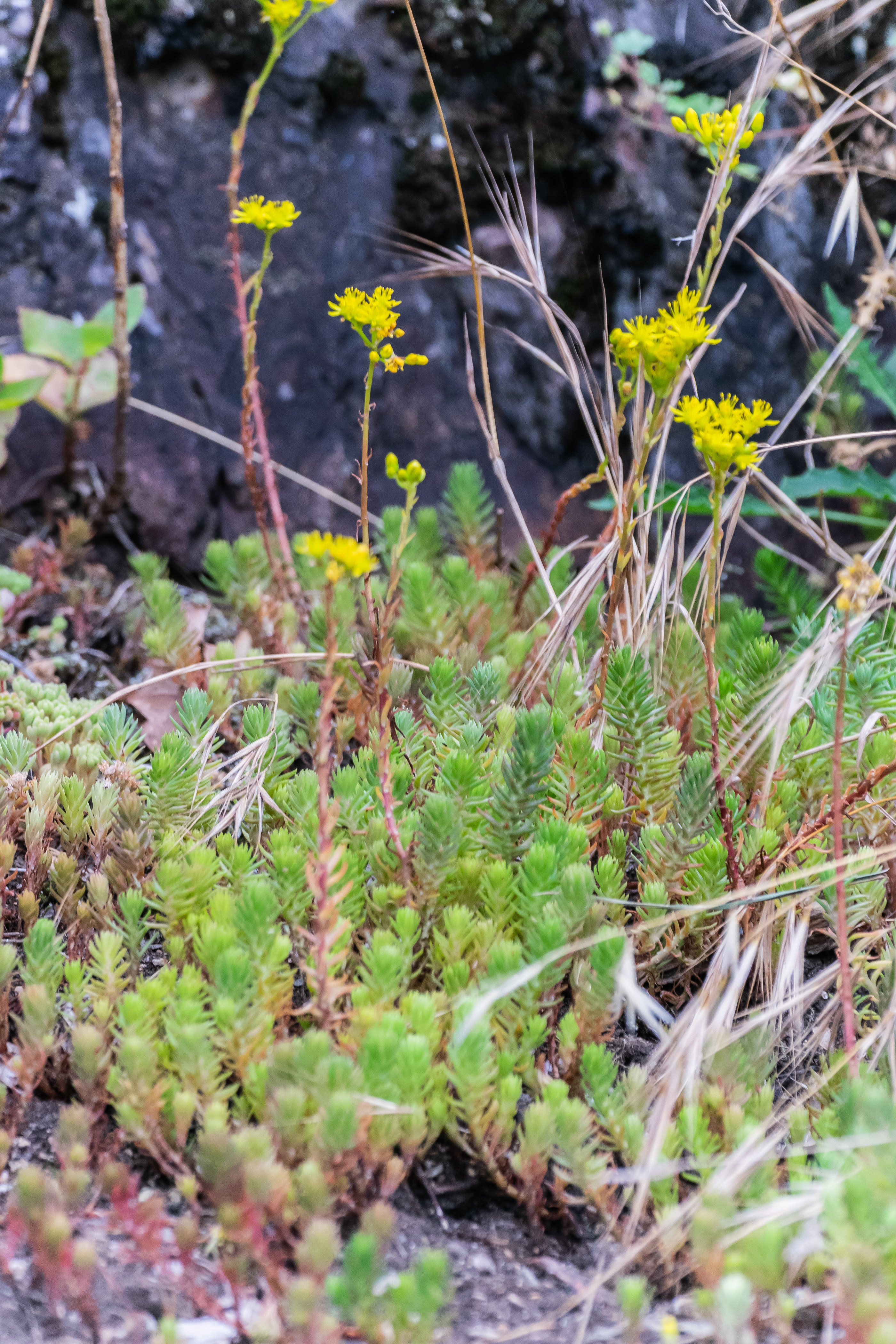 Petrosedum rupestre in commune of Pampelonne, Tarn, France